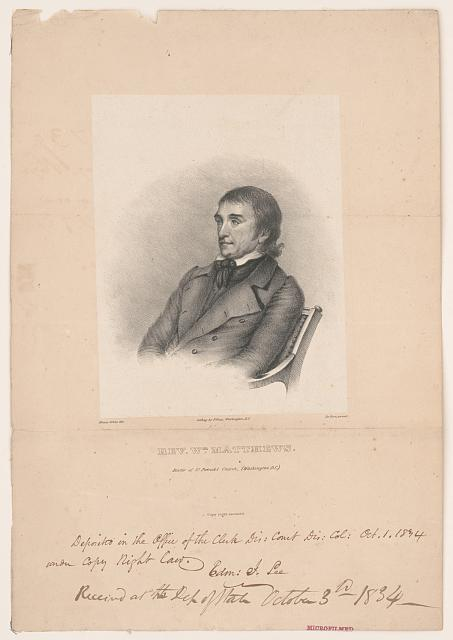 Lithograph of Rev. William Matthews, seated and shown from the waist-up. Caption below image reads "Rev. Wm. Matthews, Rector of St. Patrick's Church (Washington, D.C.)"